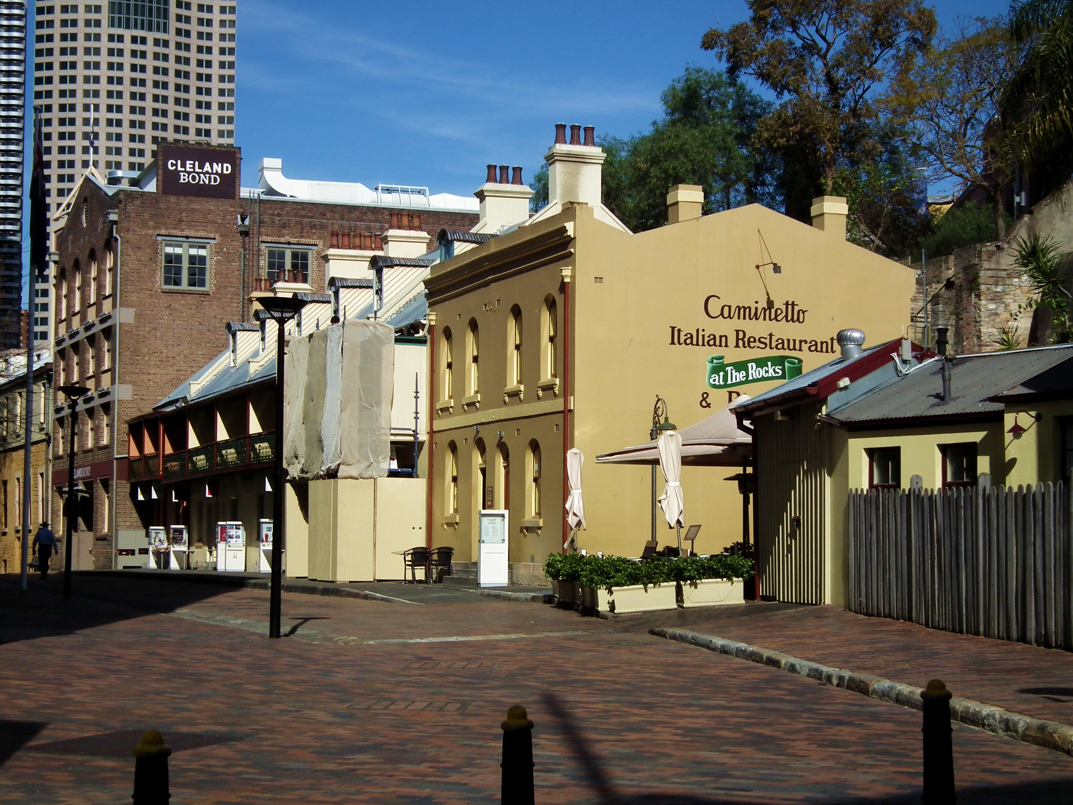 Playfair Street - The Rocks, Sydney, New South Wales. Visible left to right in this shot are Cleland Bond Store (1913-14) at number 33, Playfair Street Terraces (1875-77) at number 17 - 31, and Argyle Terrace, now Caminetto's Italian Restaurant (1883-84) at number 13-15.